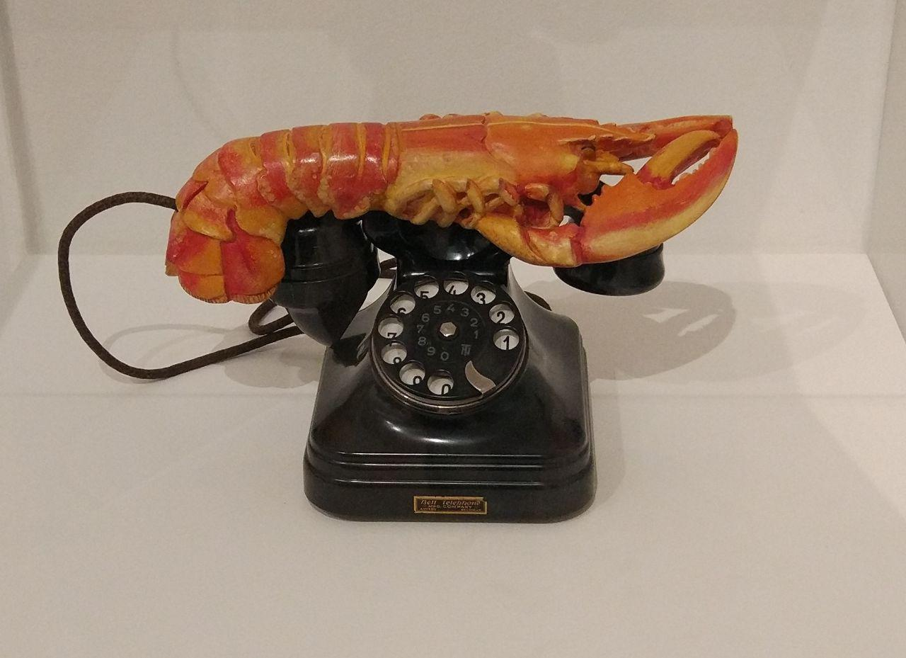 Object The photographic reproduction of this work is covered under United Kingdom law (Section 62 of the Copyright, Designs and Patents Act 1988), which states that it is not an infringement to take photographs of buildings, or of sculptures, models for buildings, or works of artistic craftsmanship permanently located in a public place or in premises open to the public. This does not apply to two-dimensional graphic works such as posters or murals. See COM:CRT/United Kingdom#Freedom of panorama for more information. Photograph Nasch92, the copyright holder of this work, hereby publishes it under the following license: Attribution: Nasch92